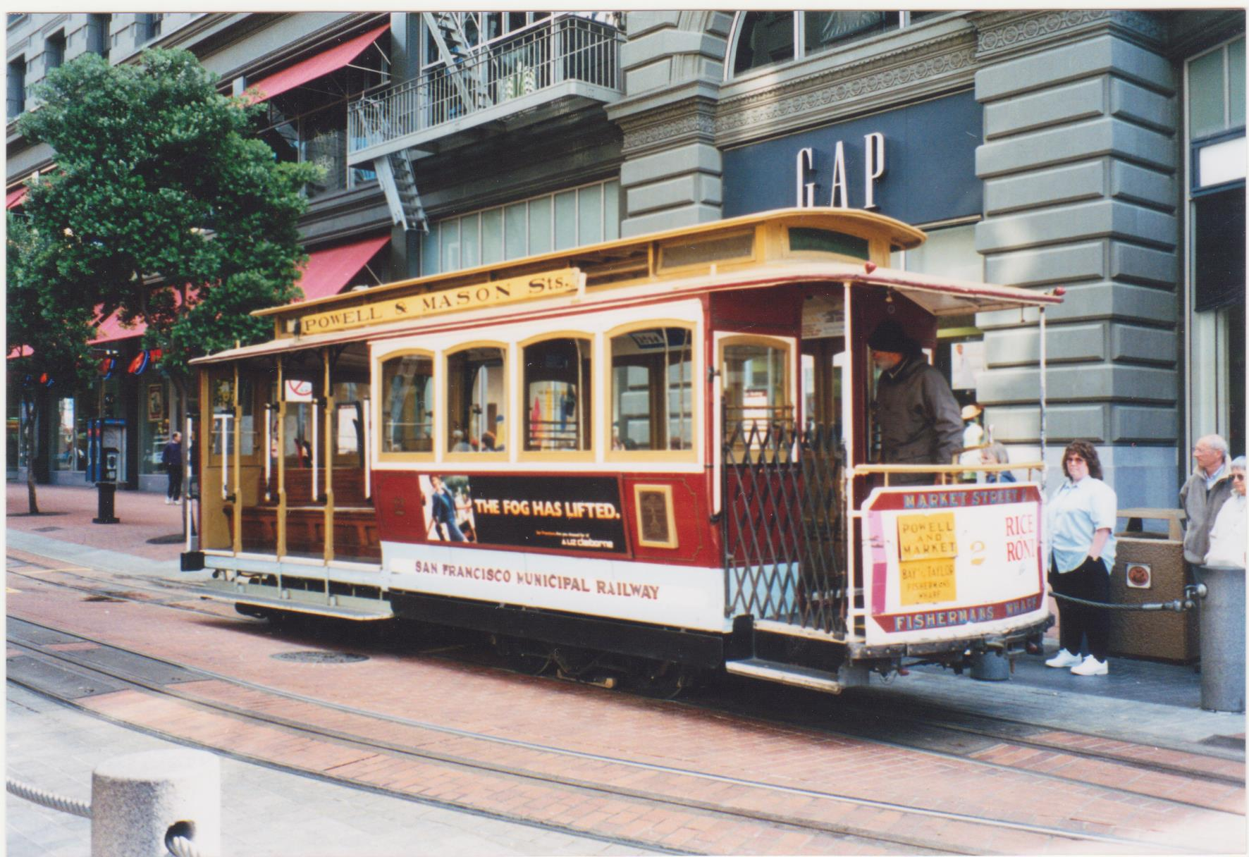 San Francisco cable car 1996